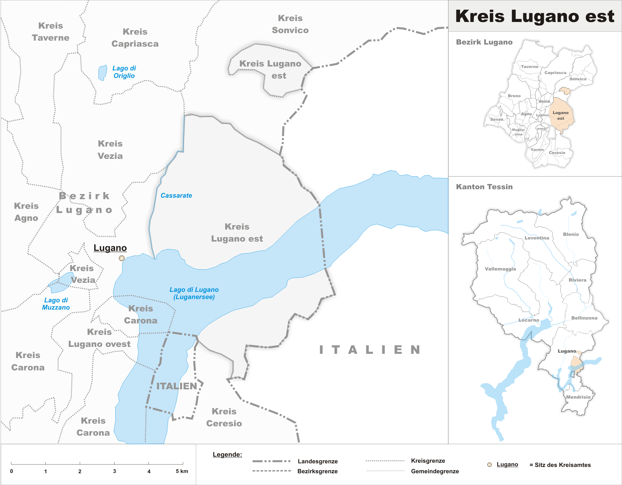 Municipalities in the circle of Lugano est